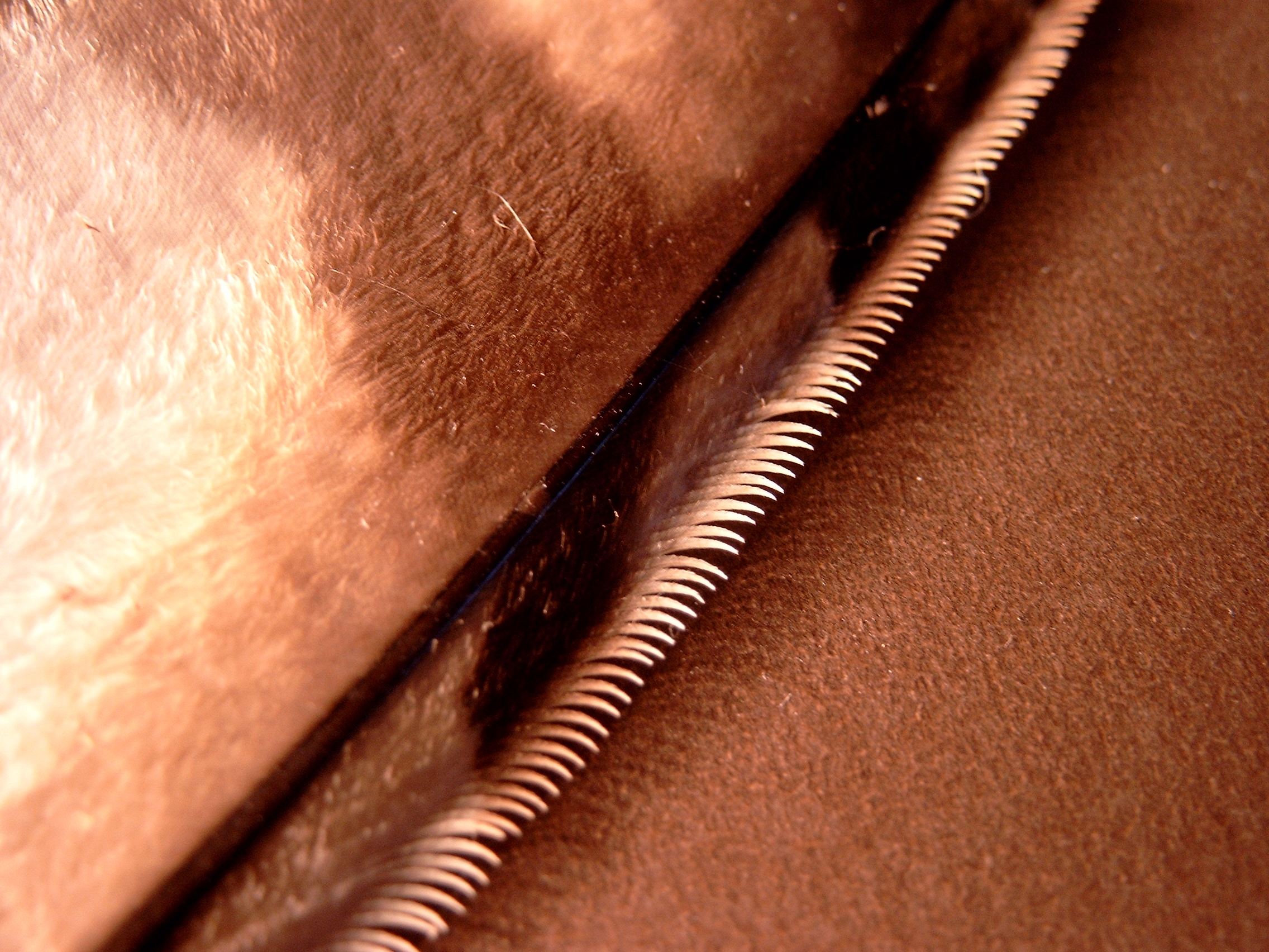 Part of a feather of an owl